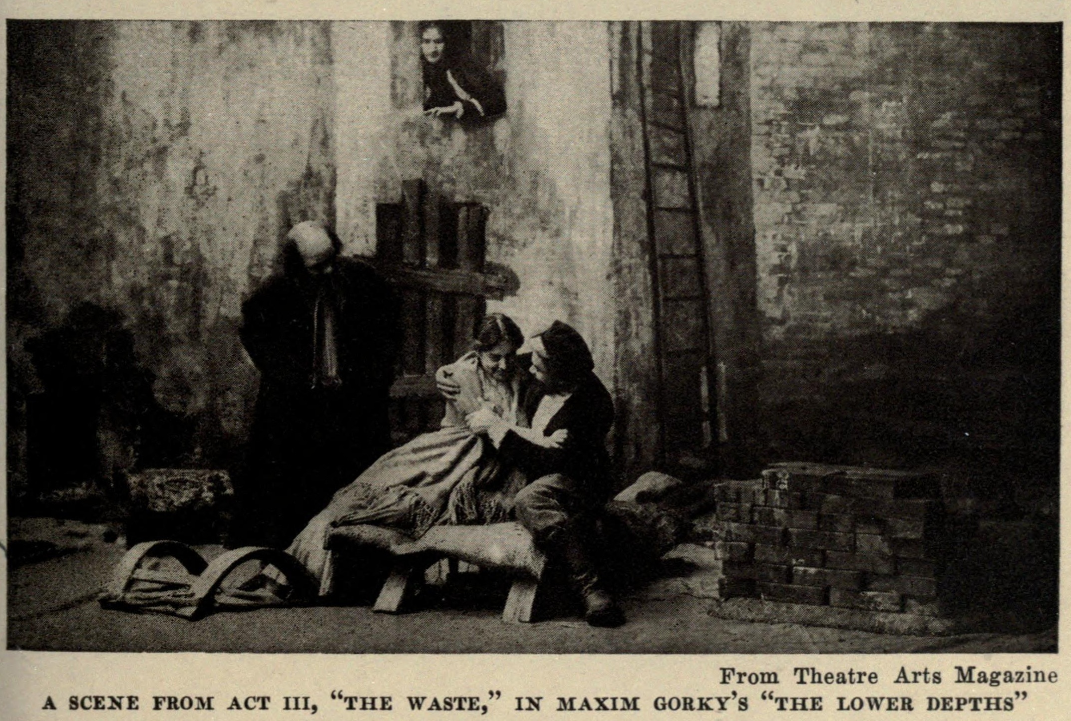 Another Scene from The Lower Depths by Gorky